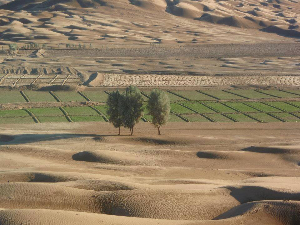 Climate; hot weather in summer; fertile (irrigated) strip and lone trees in the desert landscape of Nushki District, Balochistan, Pakistan